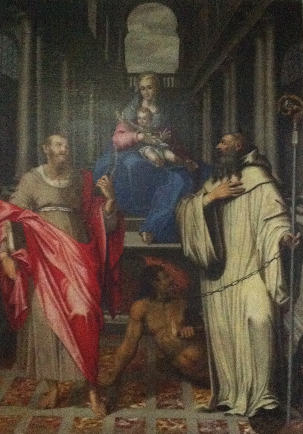 Attributed to Antonio de Carpena